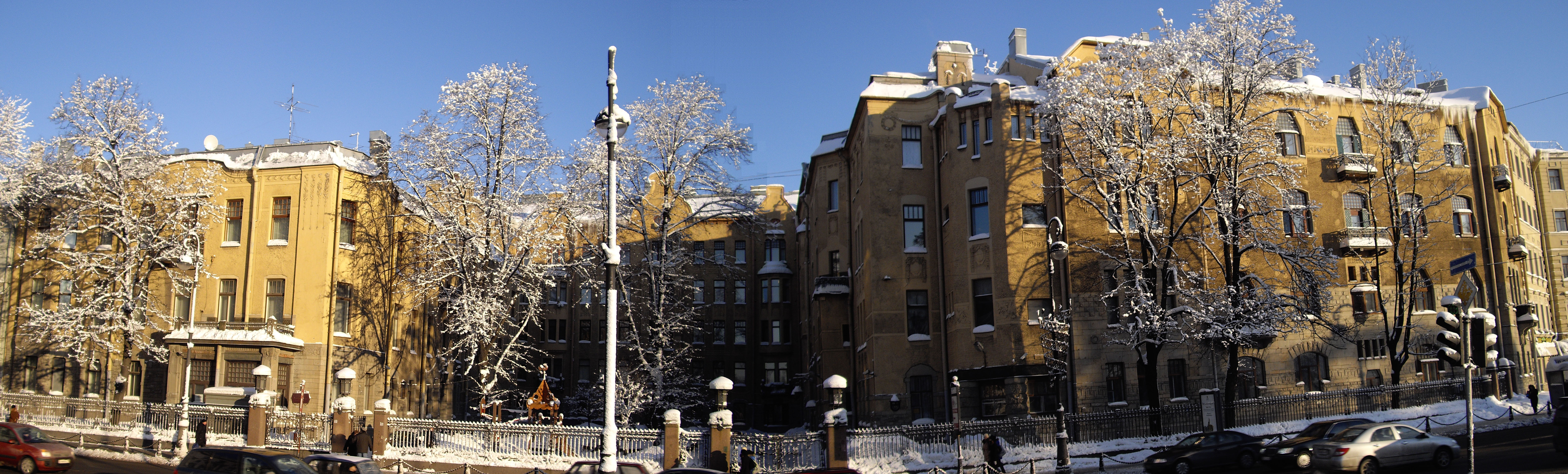 House of Lidval (1-3, Kamennoostrovsky Prospekt, Saint-Petersburg, built by architect J.-F. Lidval for his mother Ida-Amalia Lidval in 1899-1904). General view.